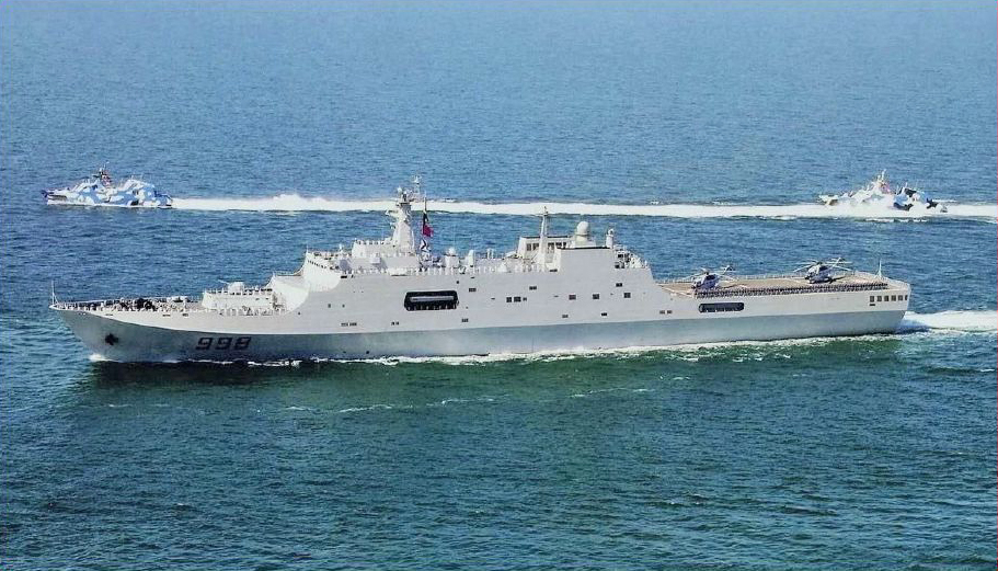 CSR Report RL33153 China Naval Modernization: Implications for U.S. Navy Capabilities—Background and Issues for Congress by Ronald O'Rourke dated February 28, 2014. Page 30 - Figure 12. Yuzhao (Type 071) Class Amphibious Ship With two Houbei (Type 022) fast attack craft behind Source: Photograph provided to CRS by Navy Office of Legislative Affairs, December 2010.